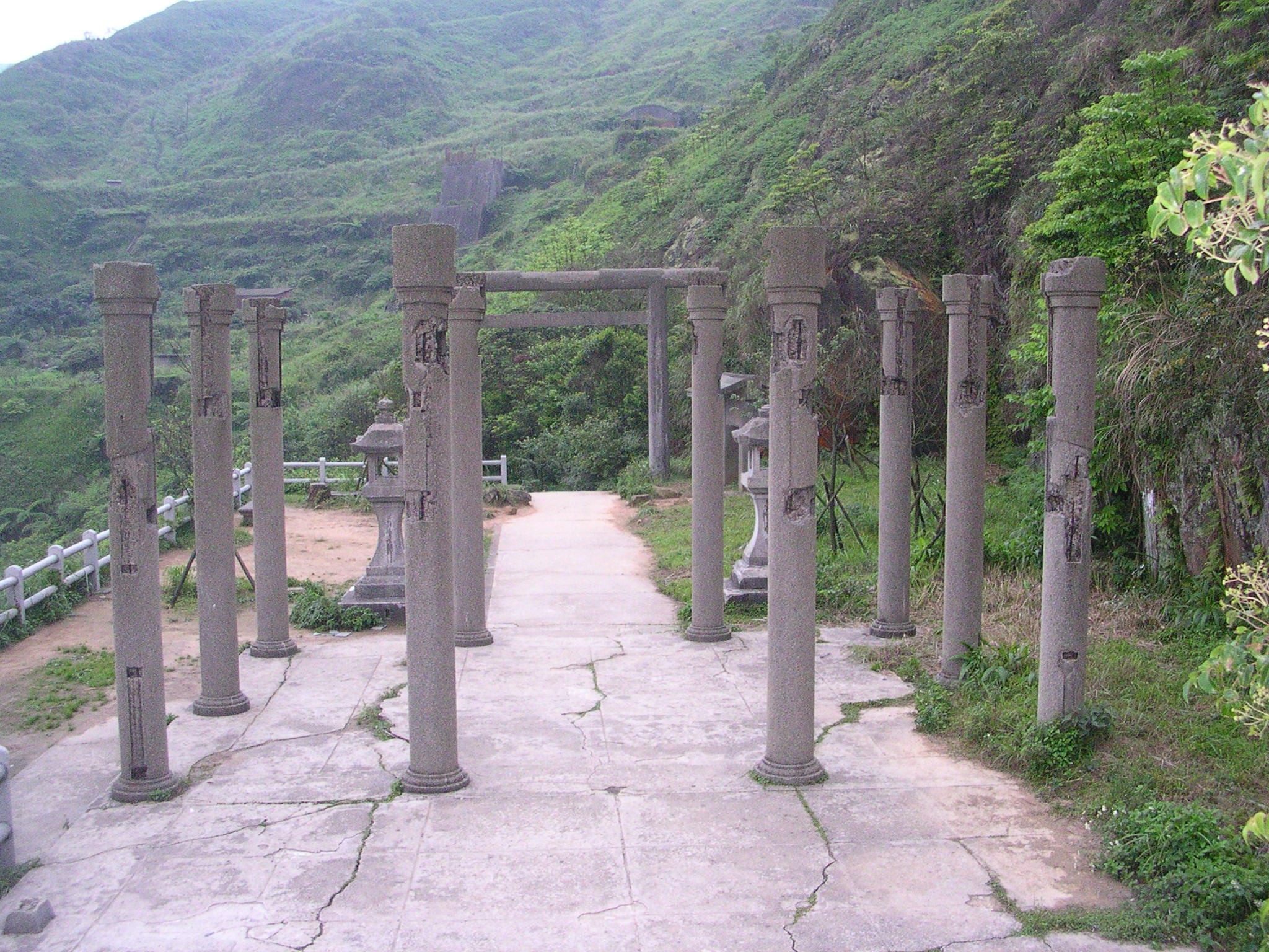 Ōgon Jinja, Rueifang, Taipei, Taiwan